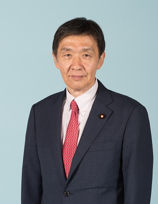 Watanabe Kouichi was inaugurated as Parliamentary Vice-Minister of Defense and Parliamentary Vice-Minister of Cabinet Office on September, 2019